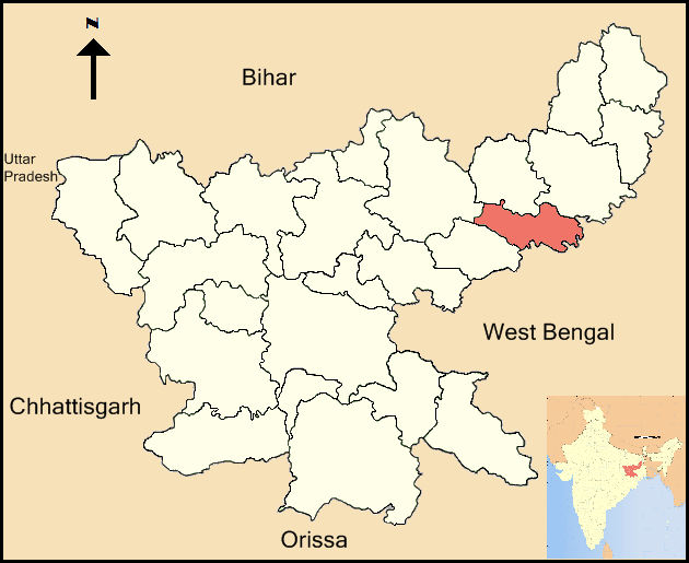 An locator map of Jamtara district, Jharkhand state, India